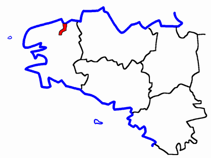 Description: Map for localisazion of cantons of Bretagne, (now Pays-de-Loire), region in France Source: made by Hervé Tigier in april 2005 from another large map (published in 1990)